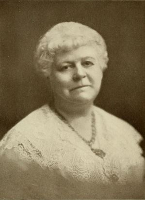 Frances Cushman-Wines, Gerhard Sisters Photo, Johnson, Anne (André) "Mrs. Charles P. Johnson", 1871-. Notable women of St. Louis, 1914; (Kindle Location 4402). [St. Louis, Woodward.]